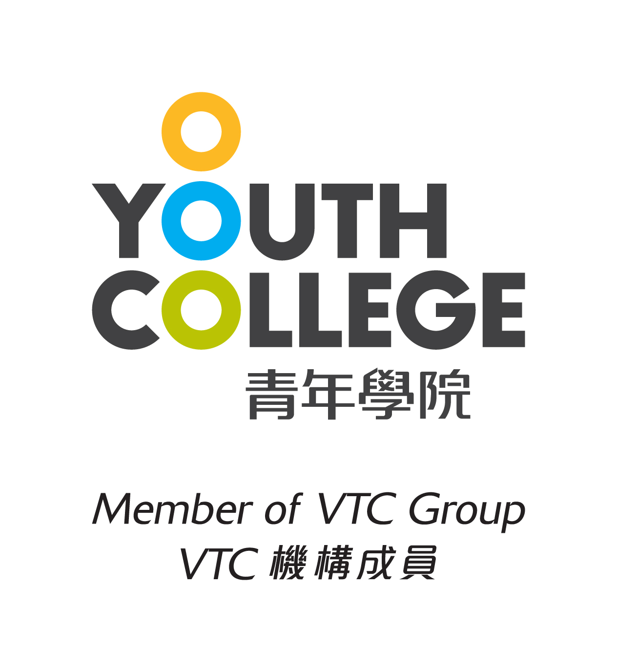 YC Logo - VTC Group